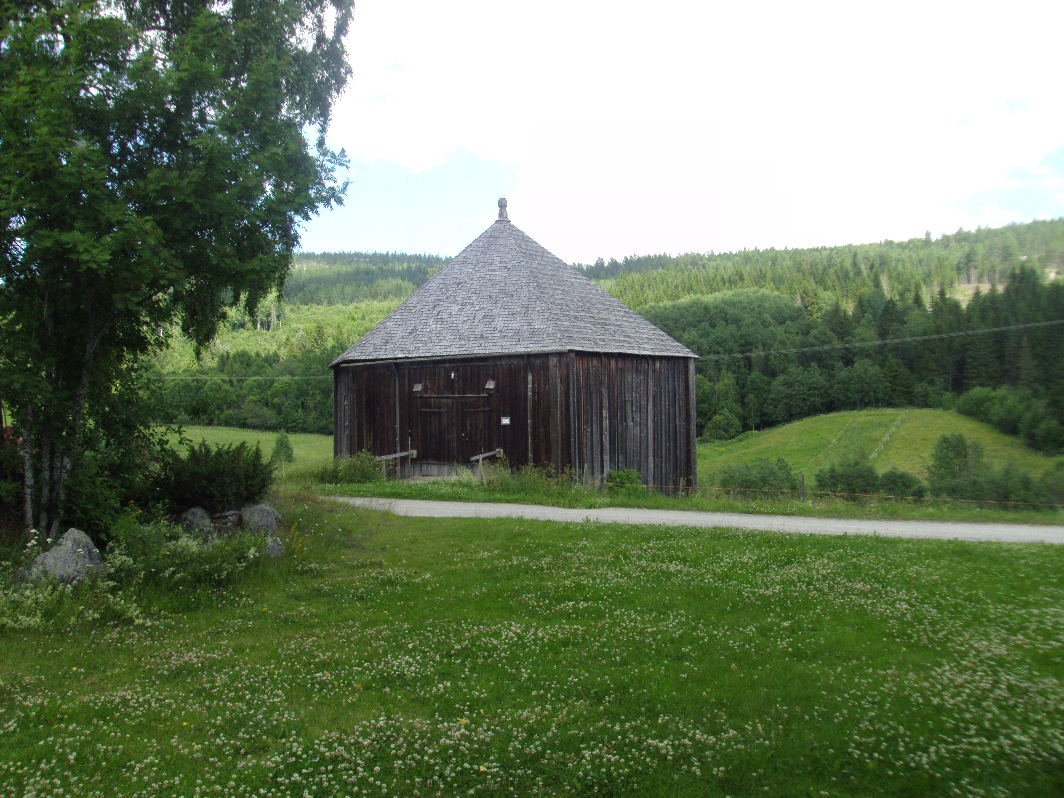 Round barn at Bjärtrå Homestead. The building was originally the village Nyböle and was reportedly built in 1848. It was purchased by the history society in 1958.